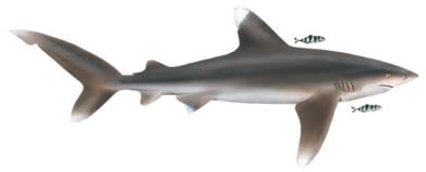 Oceanic whitetip shark (with Naucrates ductor ?)